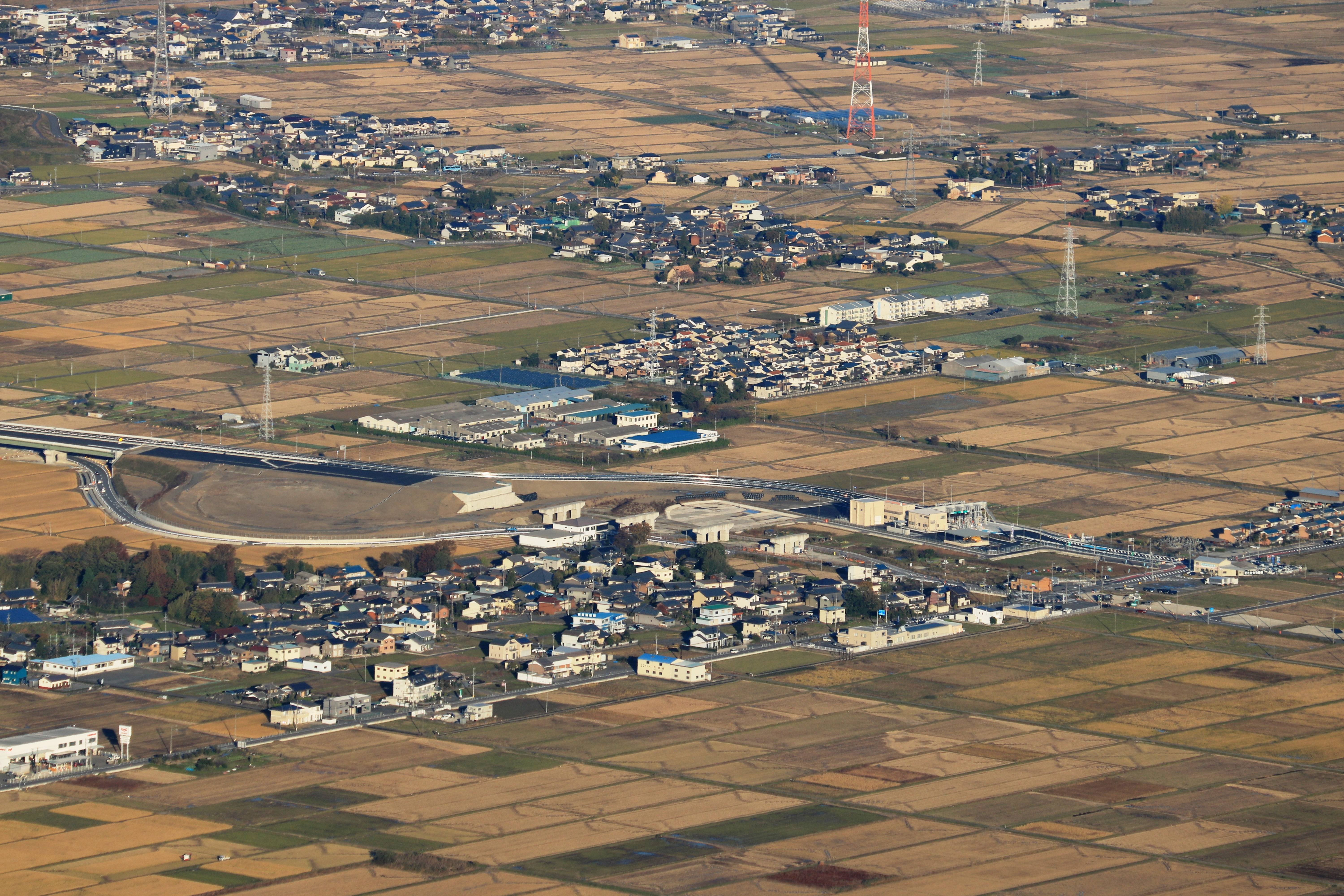 Yoro Interchange and Gifu Prefectural Road Route 213 seen from Yoro Mountains in Yoro, Gifu Prefecture, Japan.